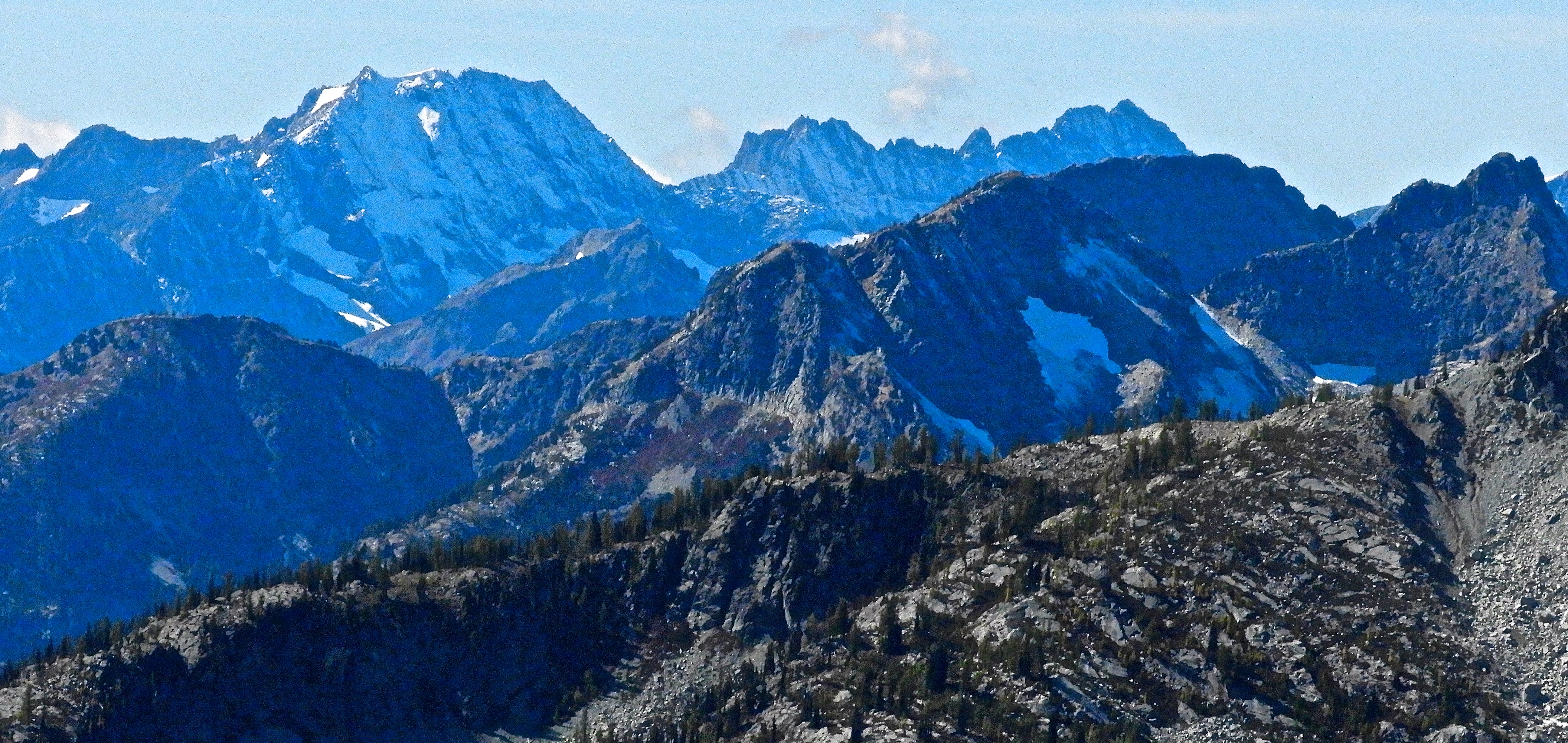 Spider Mountain seen from Maple Pass Loop Trail in the North Cascades of WA